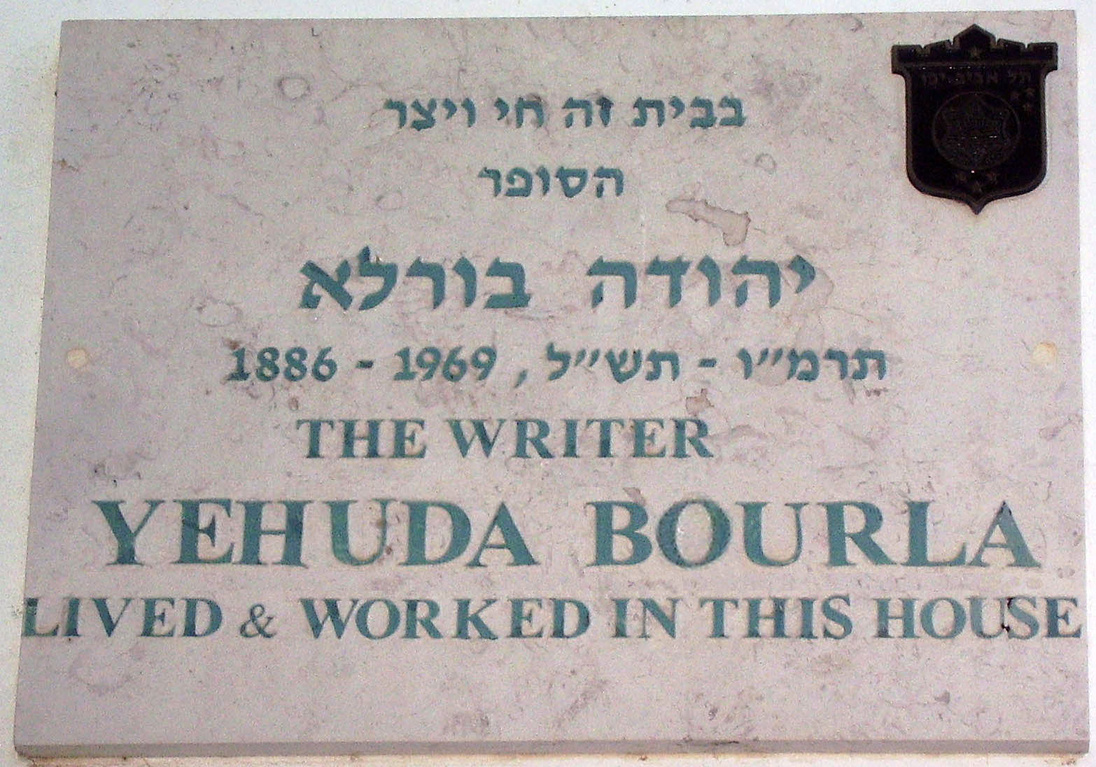 picture of a memorial plaque to Yehuda Bourla in Tel Aviv